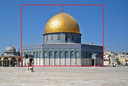 the Dome of the rock in Jerusalem